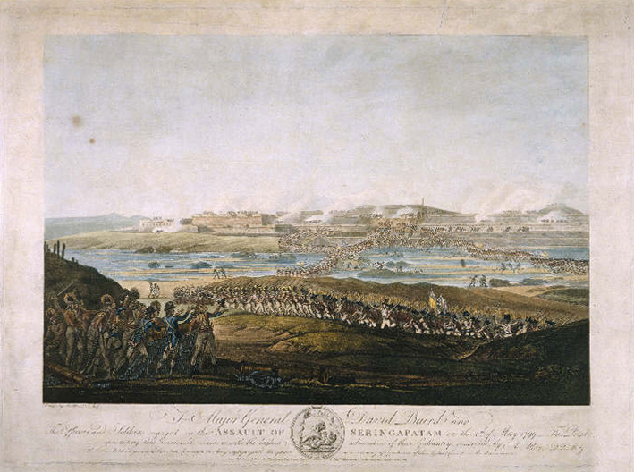 The assault of Seringapatam," on the 4th of May 1799. Coloured engraving by Sir Alexander Allen, 1802